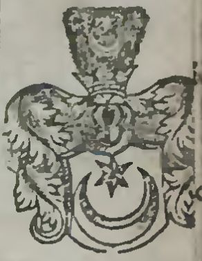 Leliwa сoat of arms from Kronika polska